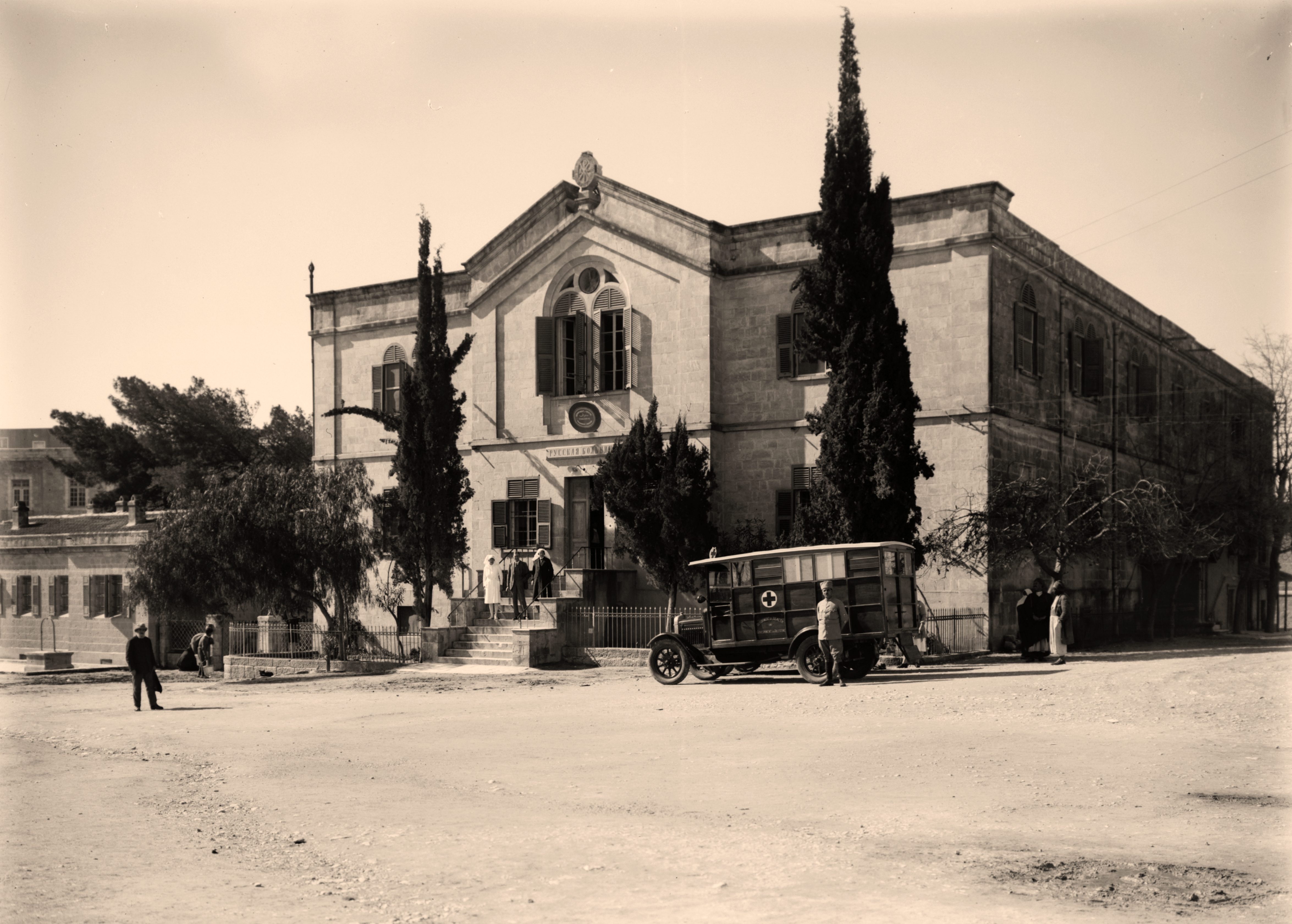 Newer Jerusalem and suburbs. The Municipal Hospital in Russian Compound.